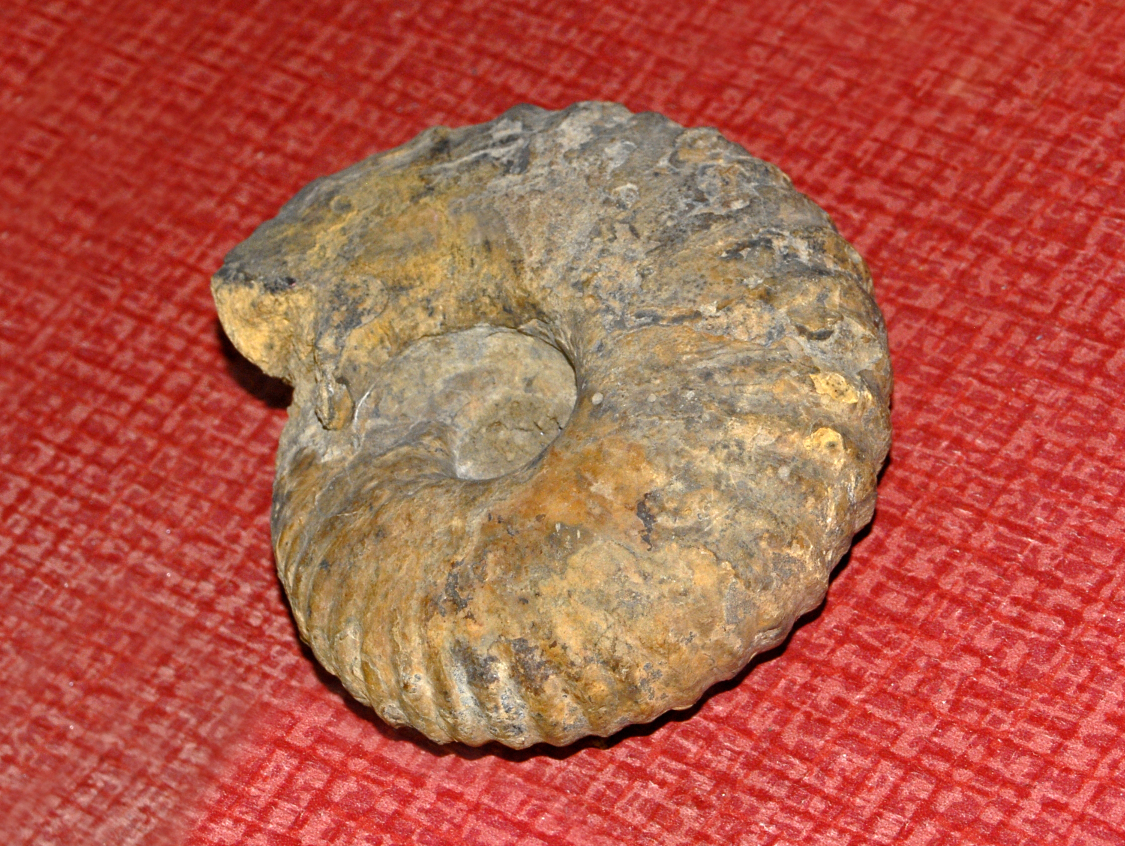 Fossil shell of Vascoceras cauvini from Nigeria, on display at Gallery of Paleontology and Comparative Anatomy, Paris.